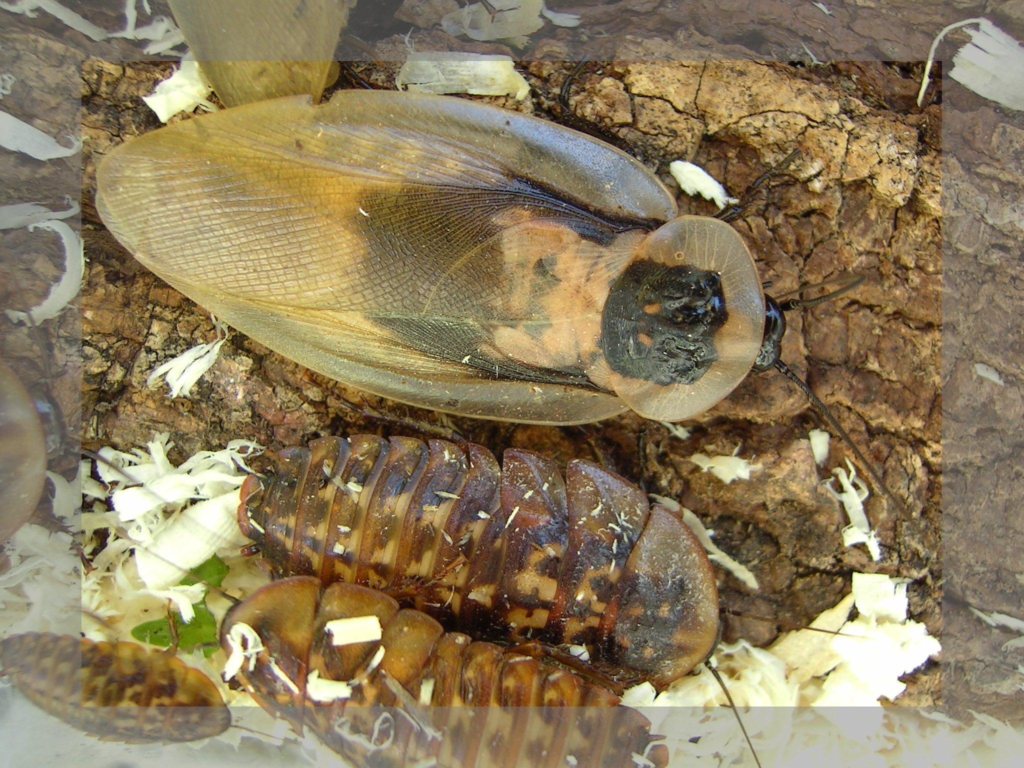 Death's head cockroach (Blaberus giganteus), adult and several nymphs